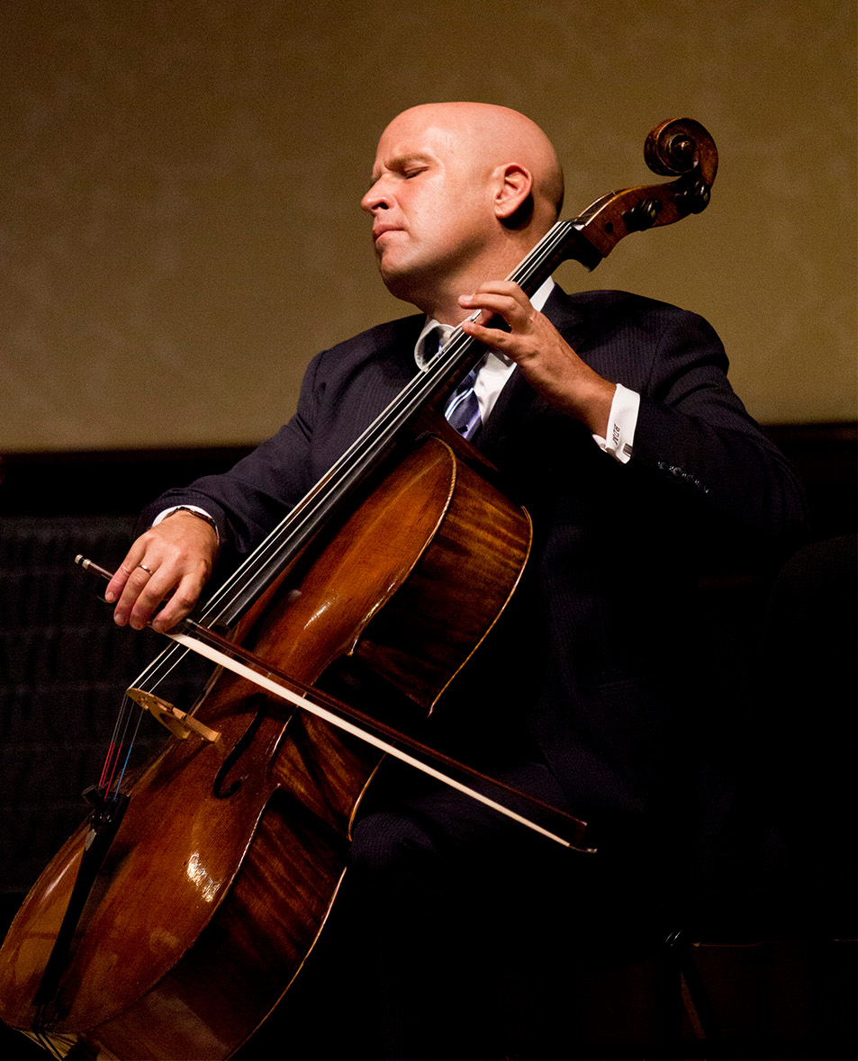 Robert DeMaine playing the cello.